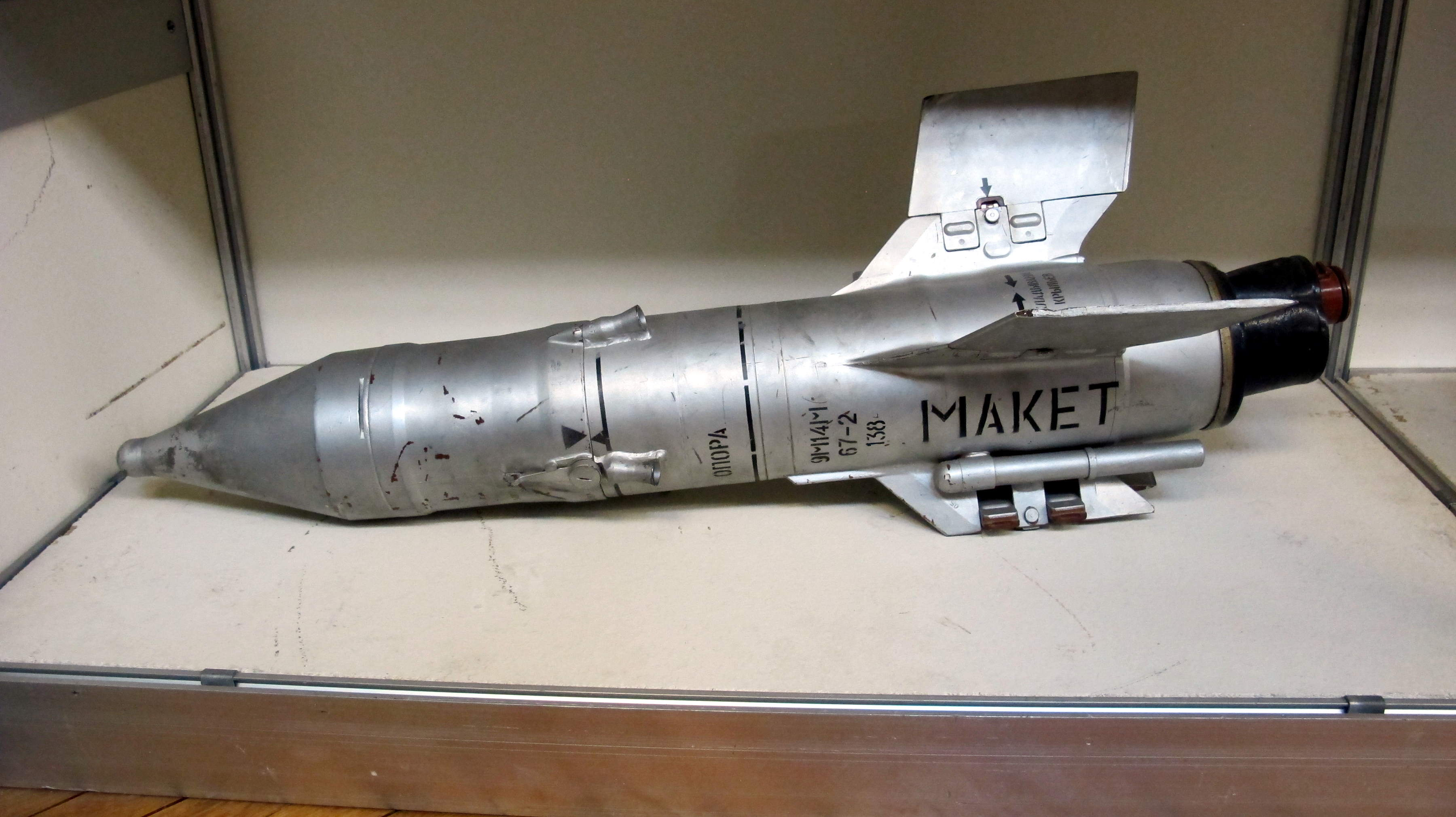 9M14 Malyutka anti-tank guided missile, Wikitrip to MAI museum 2016-02-02